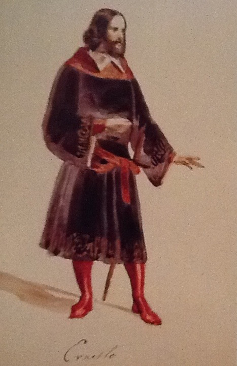 Antonio Tamburini as Ernesto in the premiere of Vincenzo Bellini's 1827 opera Il pirata